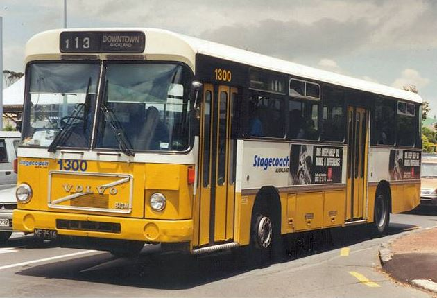 Volvo B10M with VoV body built by New Zealand Motor Bodies for Auckland Regional Authority. Bus shown with later Stagecoach signage.